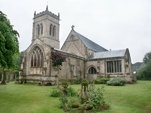 St Mary, Whaplode. The unique church of St Mary was the first of the Norman Fenland churches and it was consecrated in 1125. Norman remnants still remain in the shape of four pairs of enormous pillars supporting four pairs of beautifully constructed arches. The Norman chancel arch still bears much of the original decoration. There is much evidence of several periods of added construction. The north transept was a late Mediaeval addition, sealed off from the church some 200 years ago and used as the village school. There is an early 17th-century ten-poster tomb of Sir Anthony and Elizabeth Irby, with his and his wife’s recumbent effigies and their five children kneeling around the tomb. The pulpit with tester is 17th-century and the reredos 18th-century. There are two Mediaeval coffins which when opened were found to contain chalices.